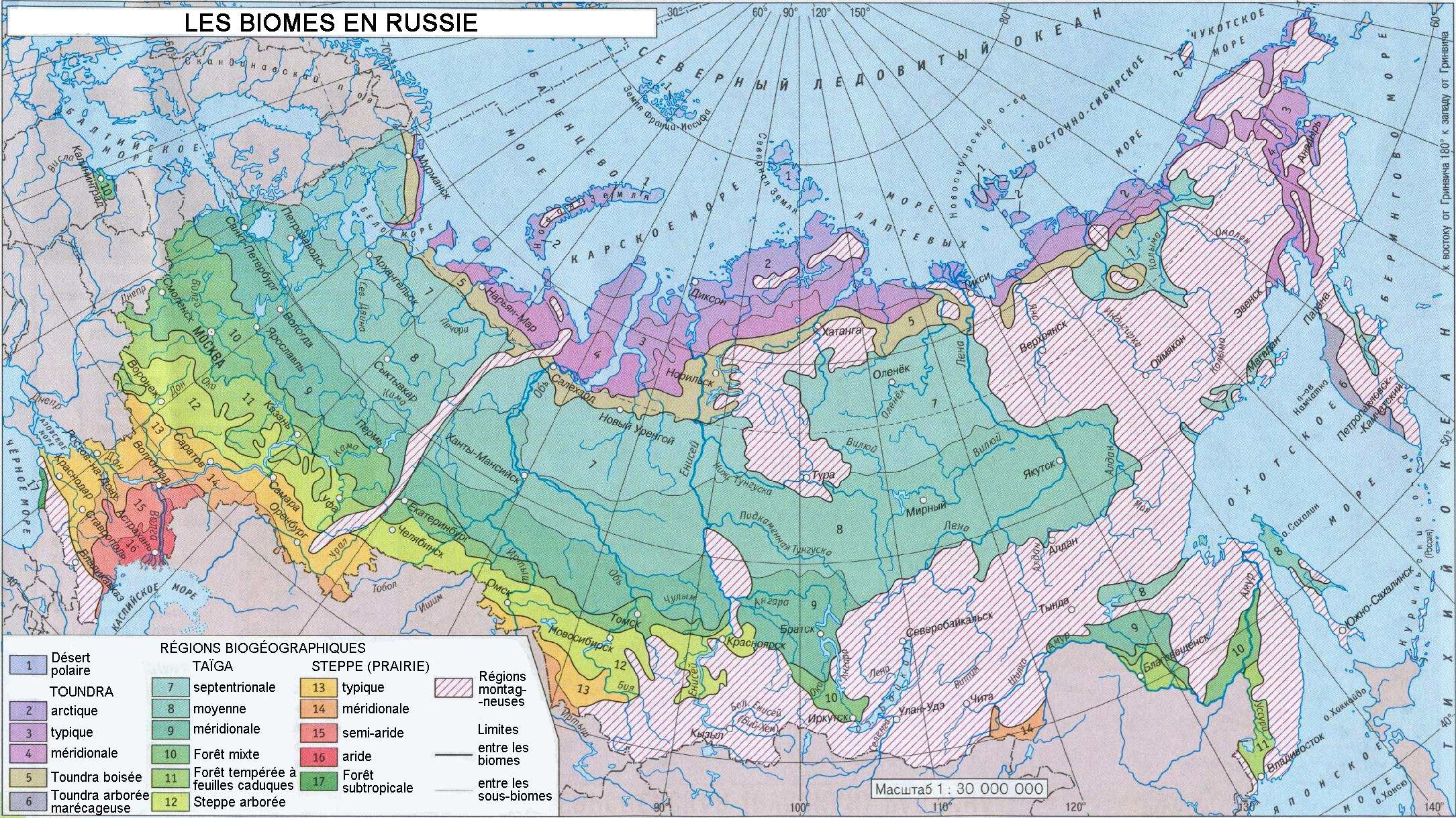 Vegetation in Russia